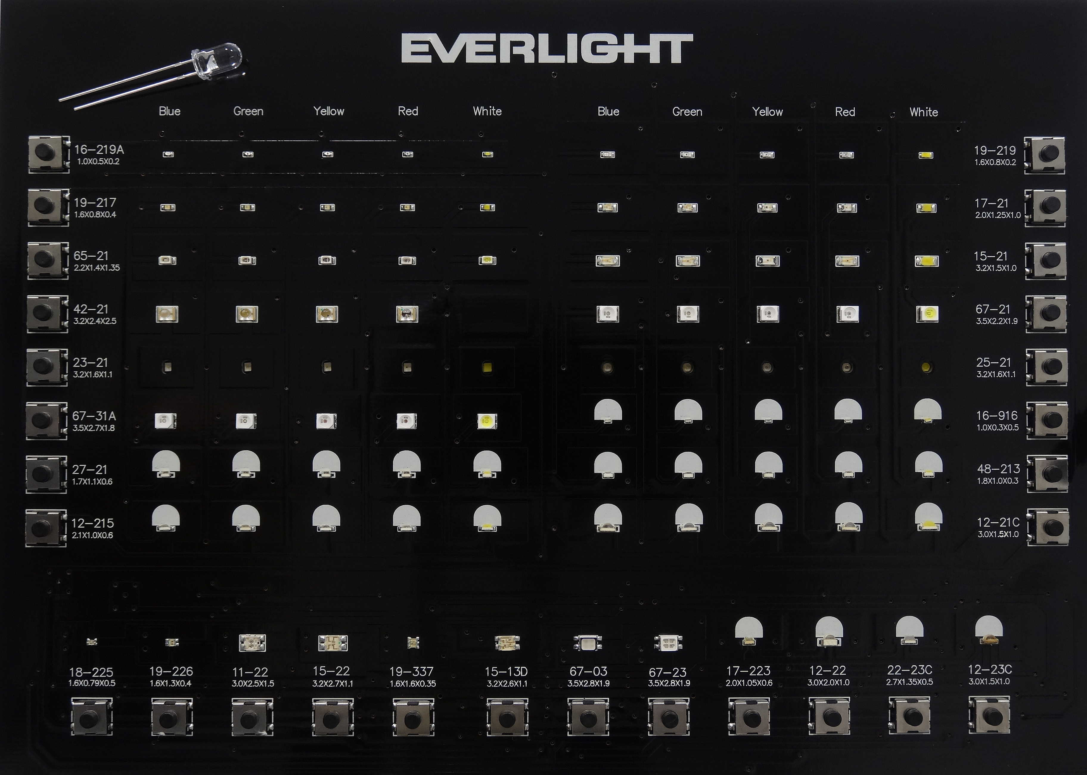 Single and multicolor surface mount miniature Light Emitting Diodes in most common sizes mounted on a printed circuit board. For the purpose of the size comparison, a traditional 5 mm LED placed on the upper right of the photo. The second row numbers are showing their dimensions in millimeters.